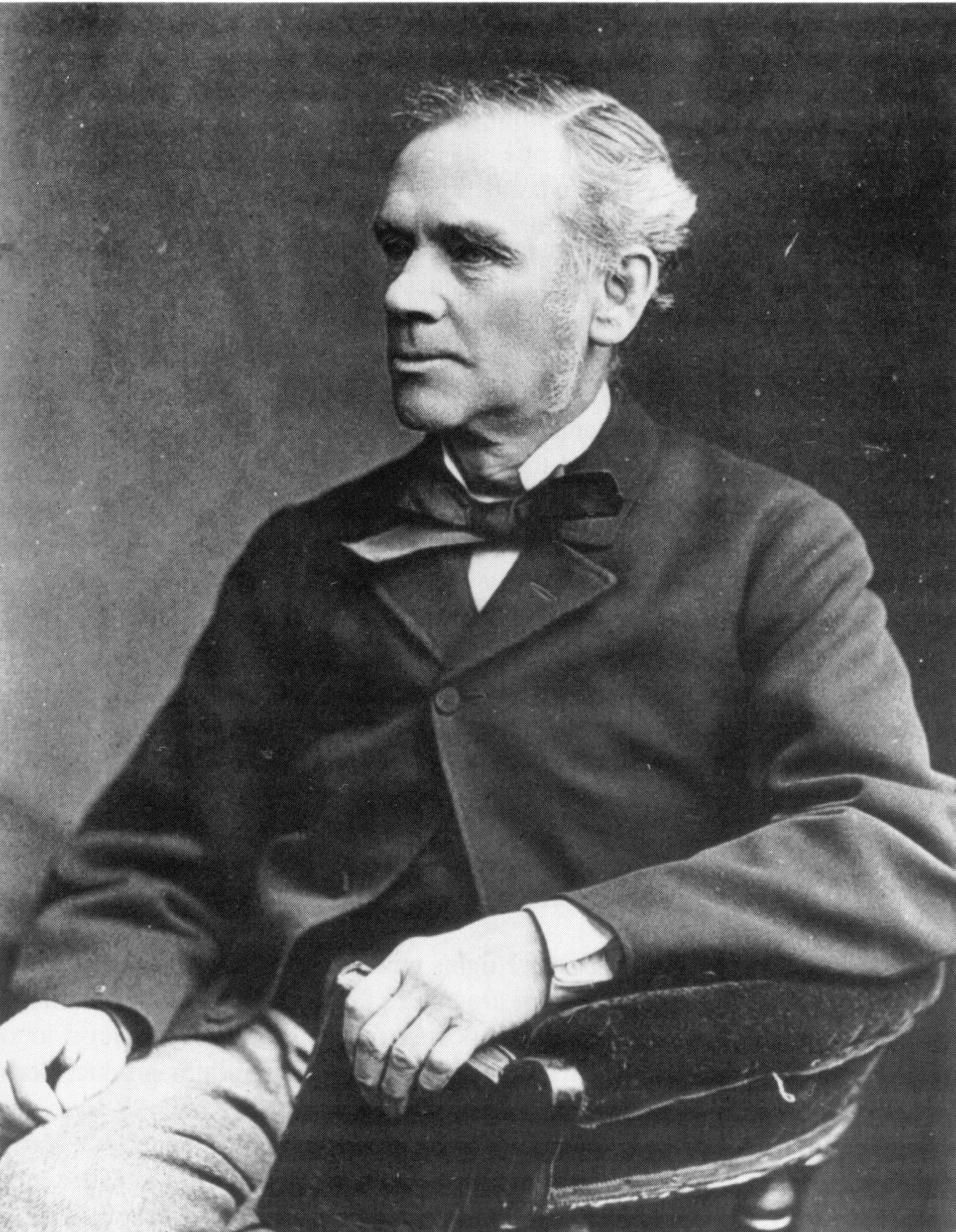 Portrait of Hugh Mason, MP for Ashton-under-Lyne 1880–1885